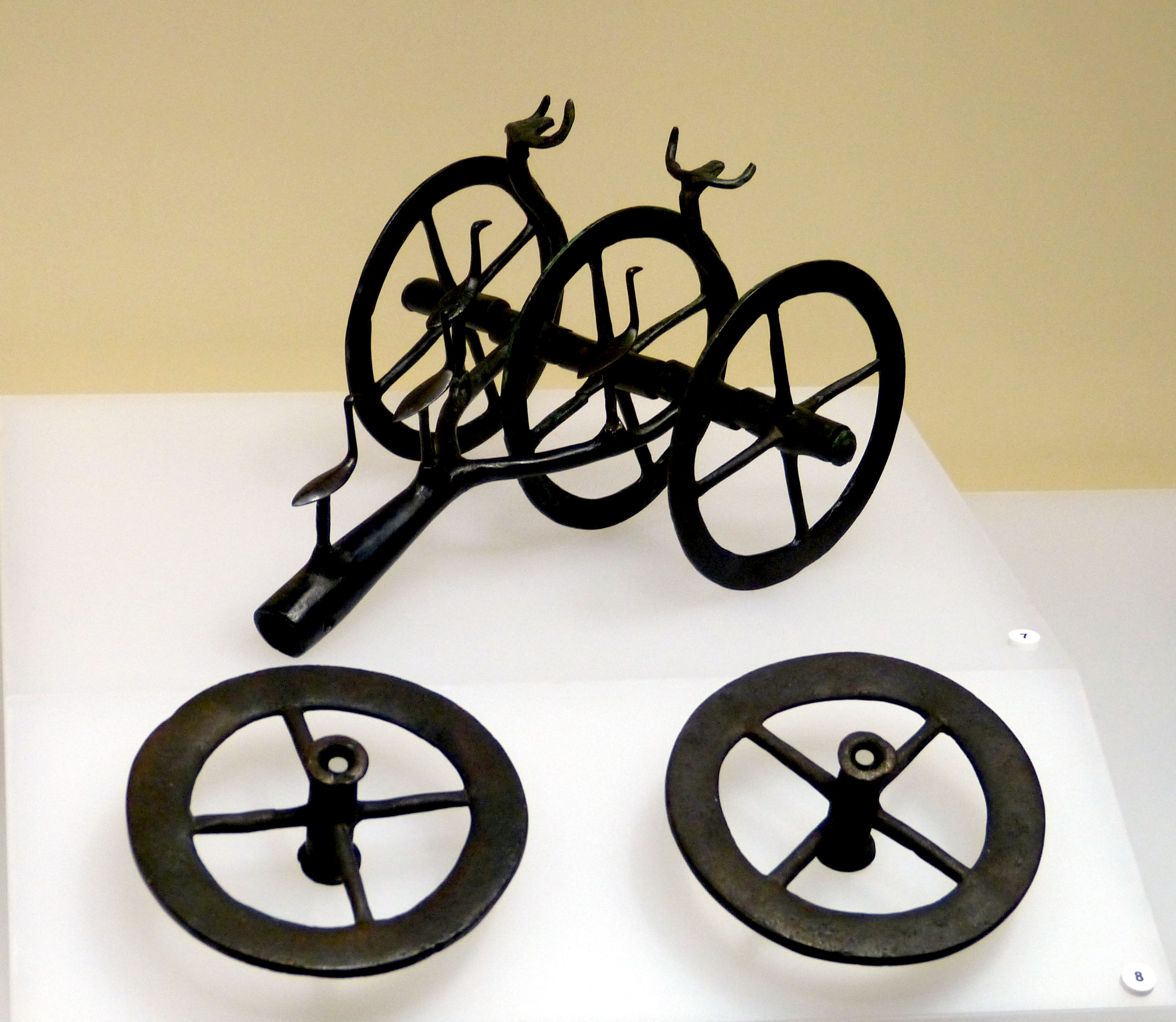 Brandenburg an der Havel ( Germany ). Archaeological Museum of the state of Brandenburg - Bronze Age Gallery: Cultic bronze carriage of the Lusatian culture, from Potsdam.